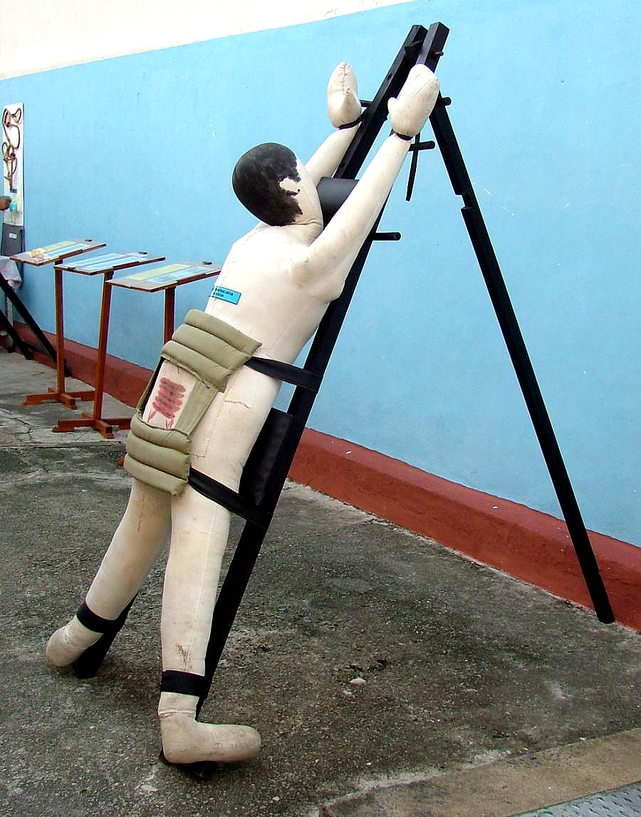 Photograph taken on September 6, 2005